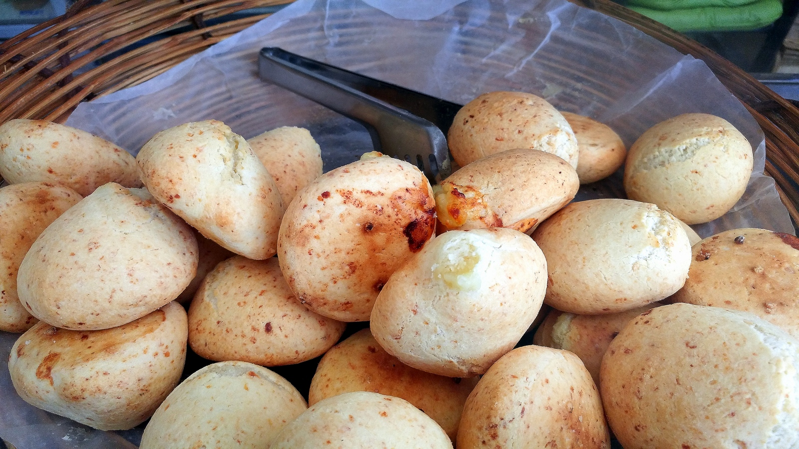 Chipa is the most typical food from Paraguay